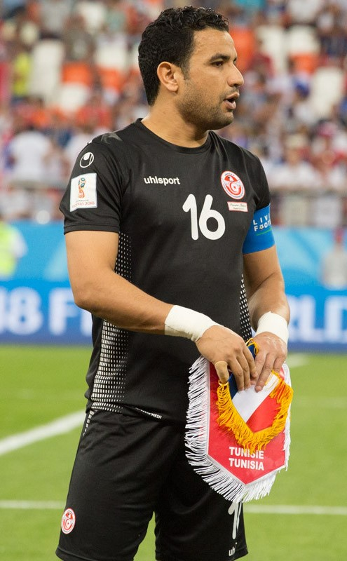 Aymen Mathlouthi